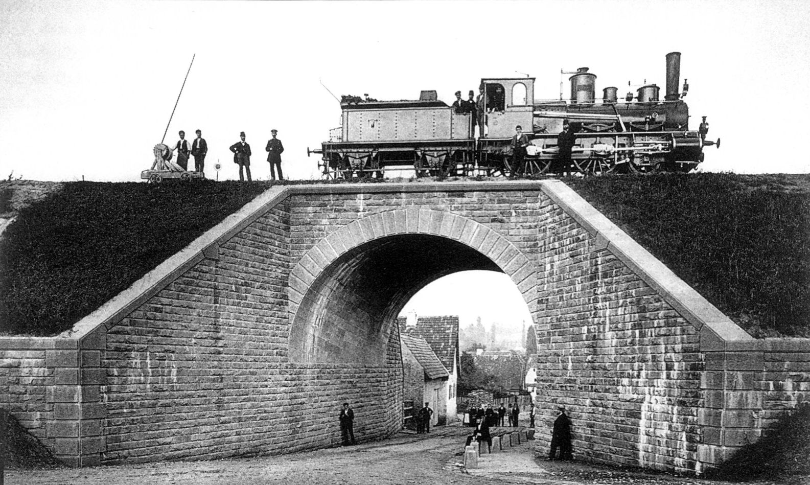 Crossing of Kraichgaubahn and road in Jöhlingen. The steam engine is a IV c from the Grand Duchy of Baden State Railway.